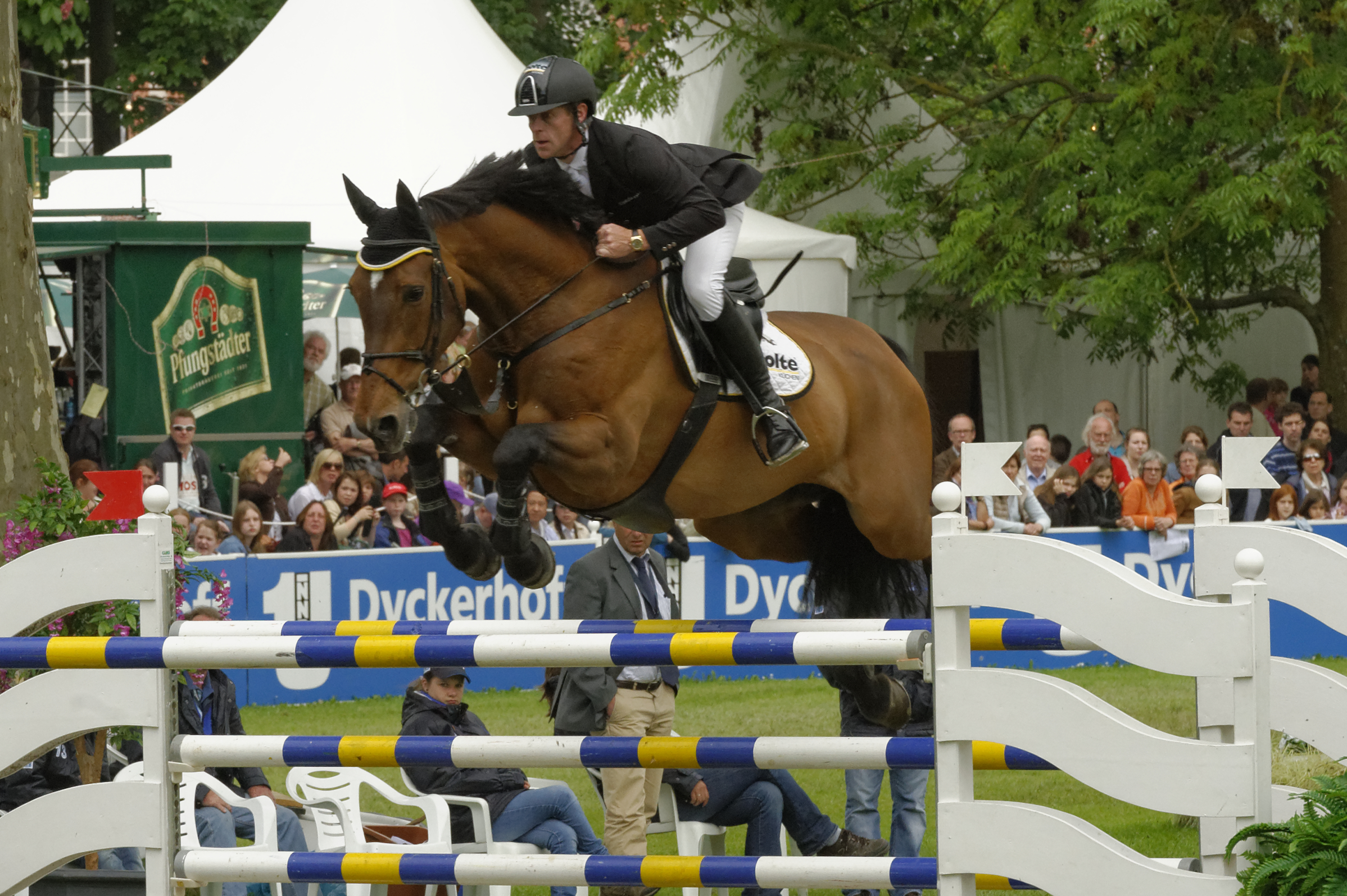 Internationales Pfingstturnier Wiesbaden 2013 The making of this document was supported by the Community-Budget of Wikimedia Germany.